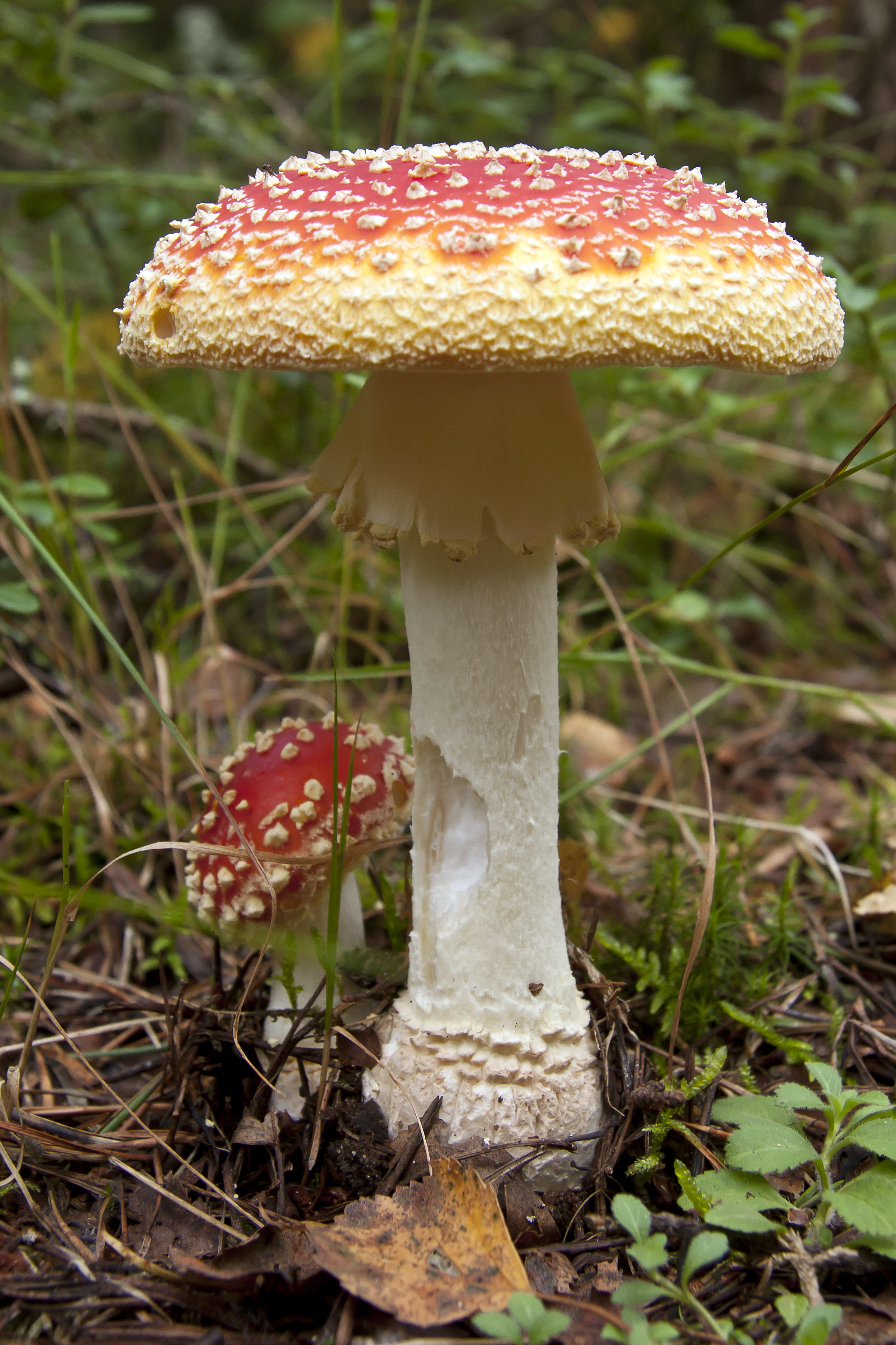 Fly agaric.